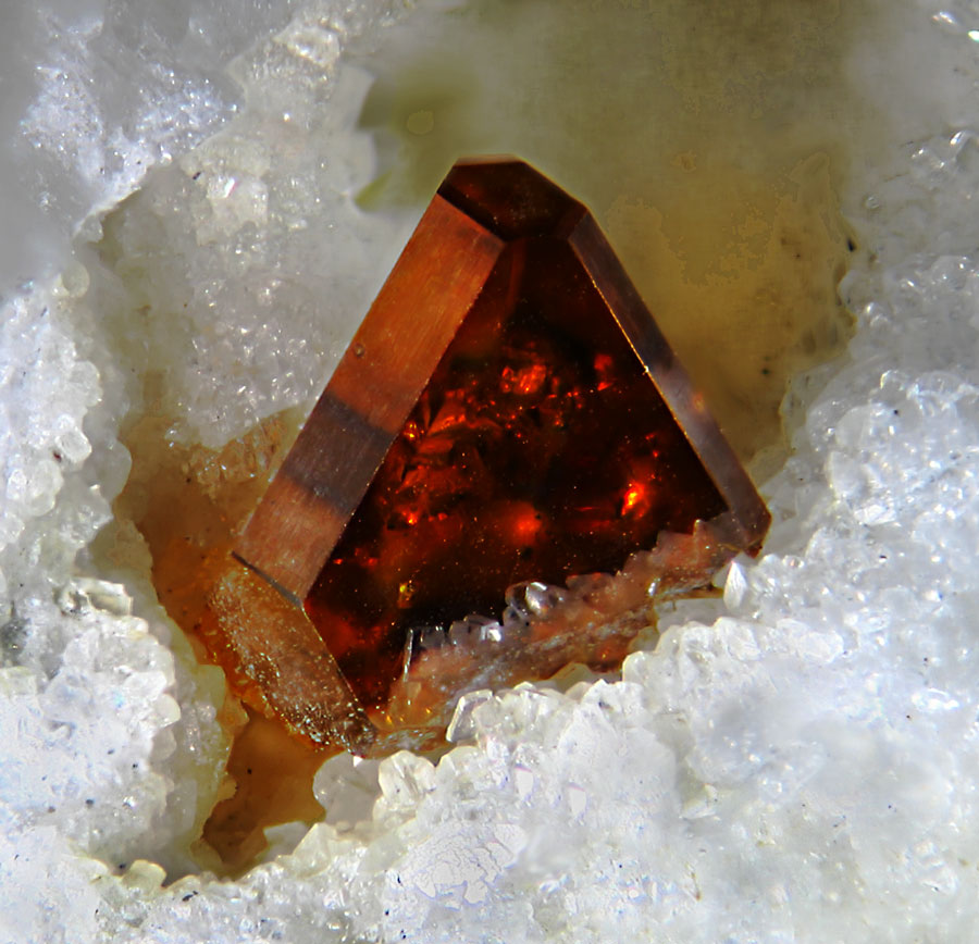 Sphalerite crystal (6mm) from Lengenbach Quarry (2007)